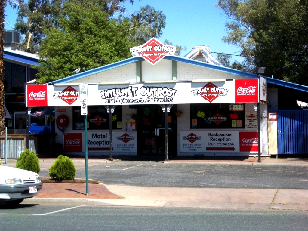 I took this photo in Alice Springs in 2005